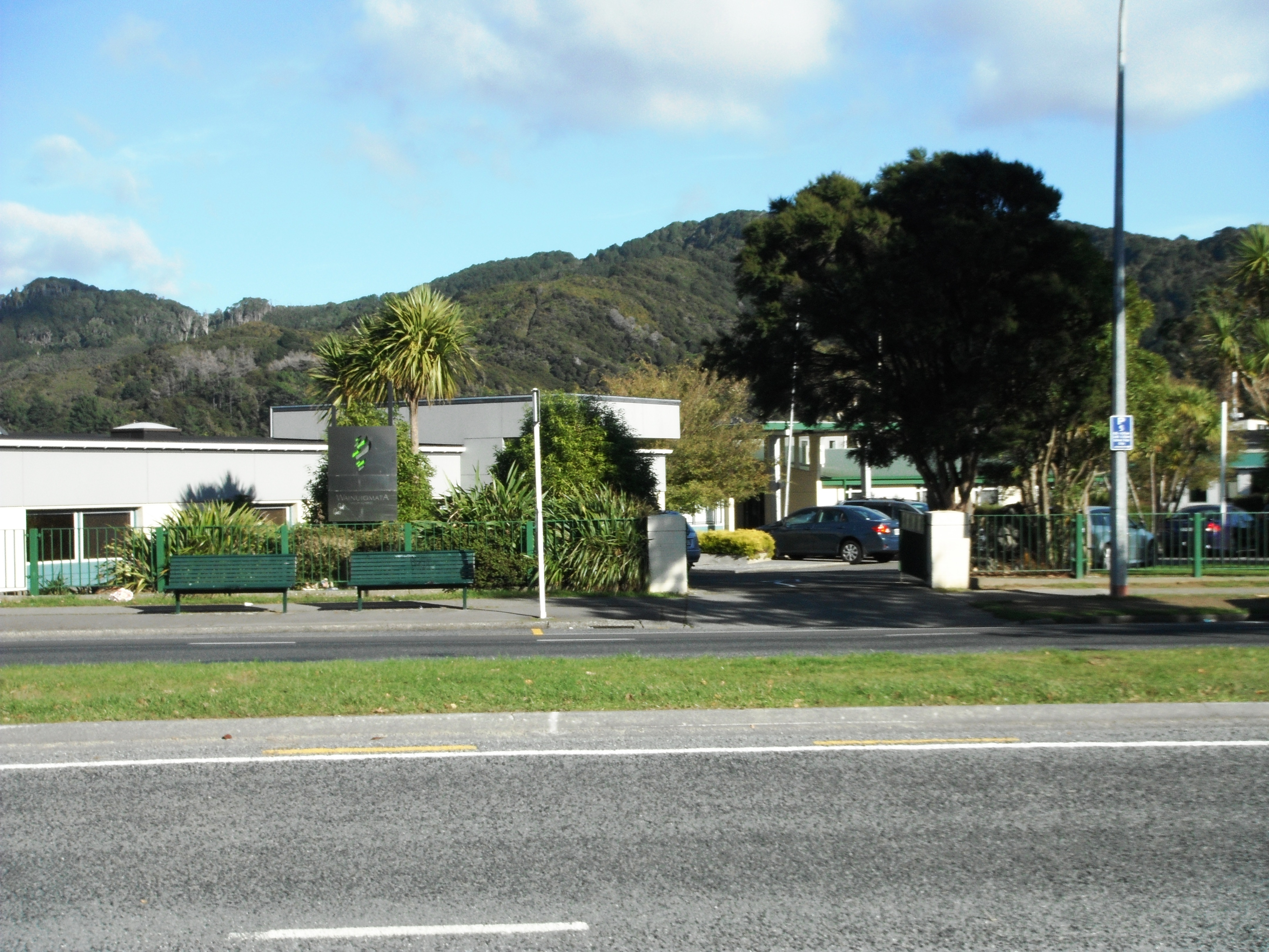 The main entrance to Wainuiomata High School in Wainuiomata, Lower Hutt, New Zealand.